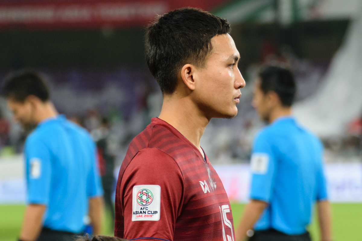 Suphan Thongsong at the Asian Cup 2019